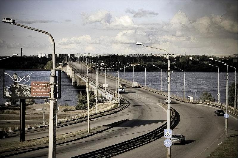 South bridge in Dnipropetrovsk/Ukraine